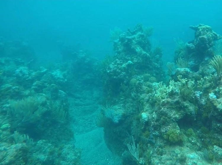 Picture of carols taken at St.Thomas